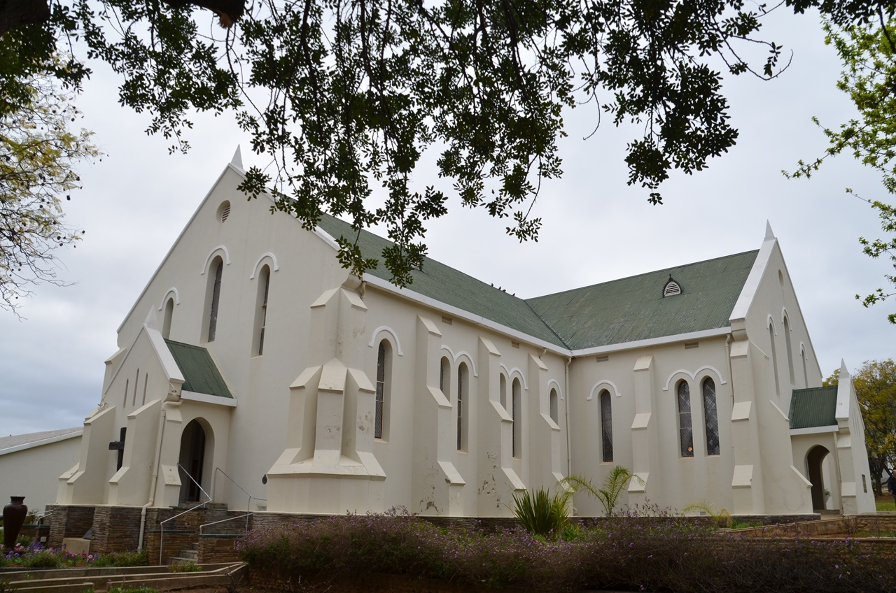 This media shows a South African Protected Site with SAHRA file reference 9/2/068/0016.